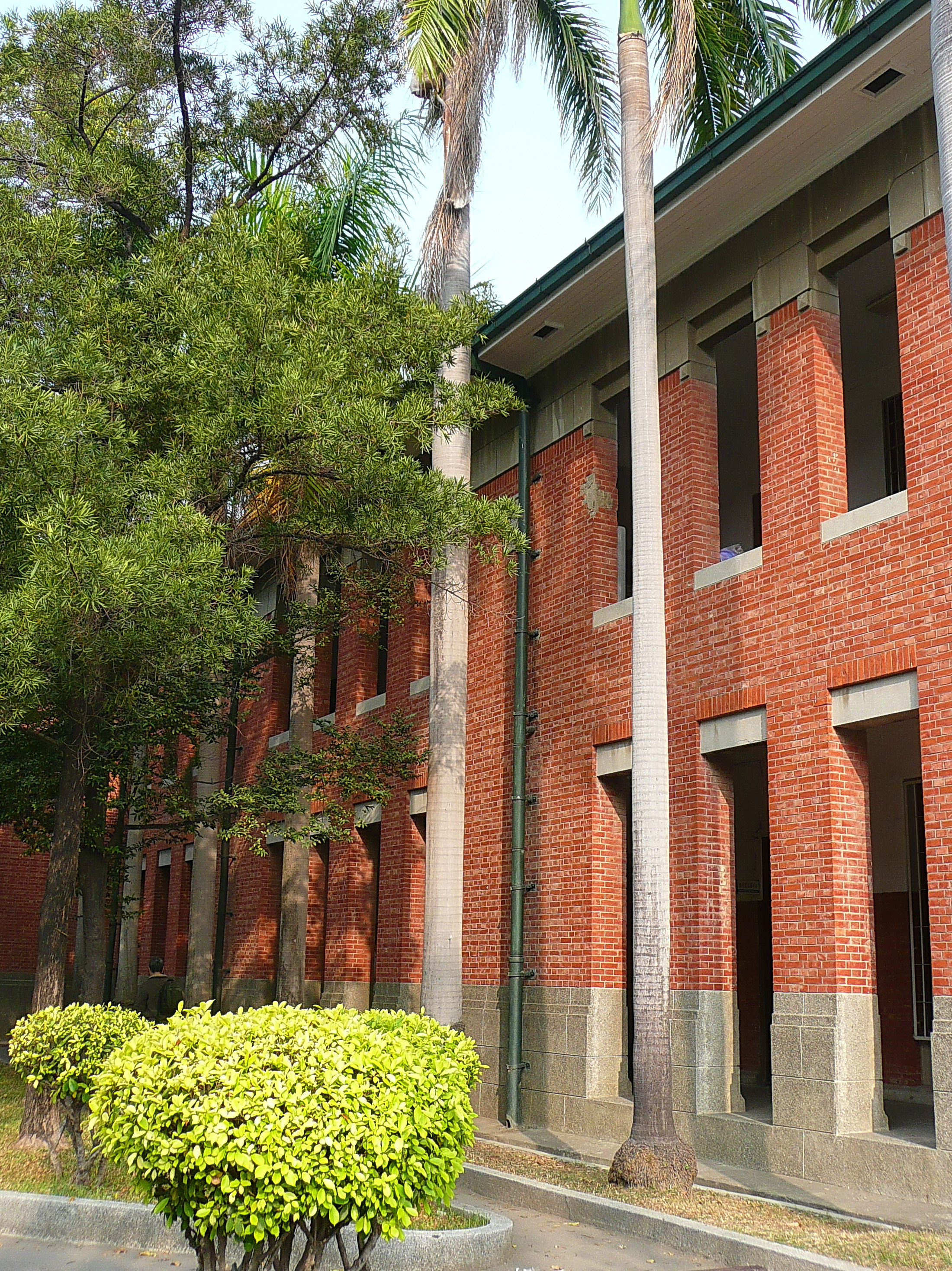 高雄中學 Gaoxiong Senior High School